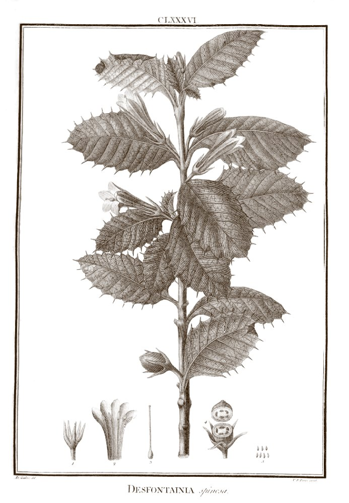 Illustration of Desfontainia spinosa